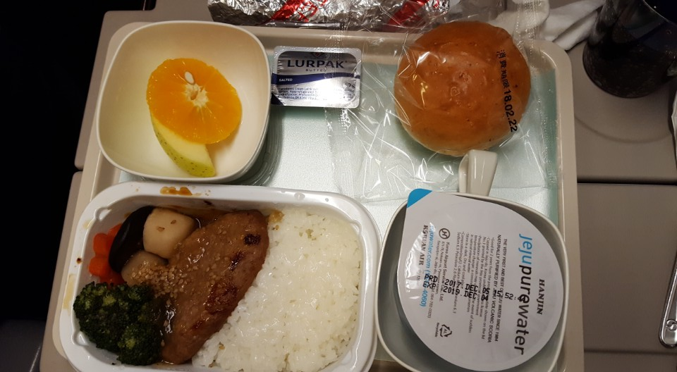 The Economy class meal of Korean Air(KE002 Tokyo/Narita-Seoul/Incheon).